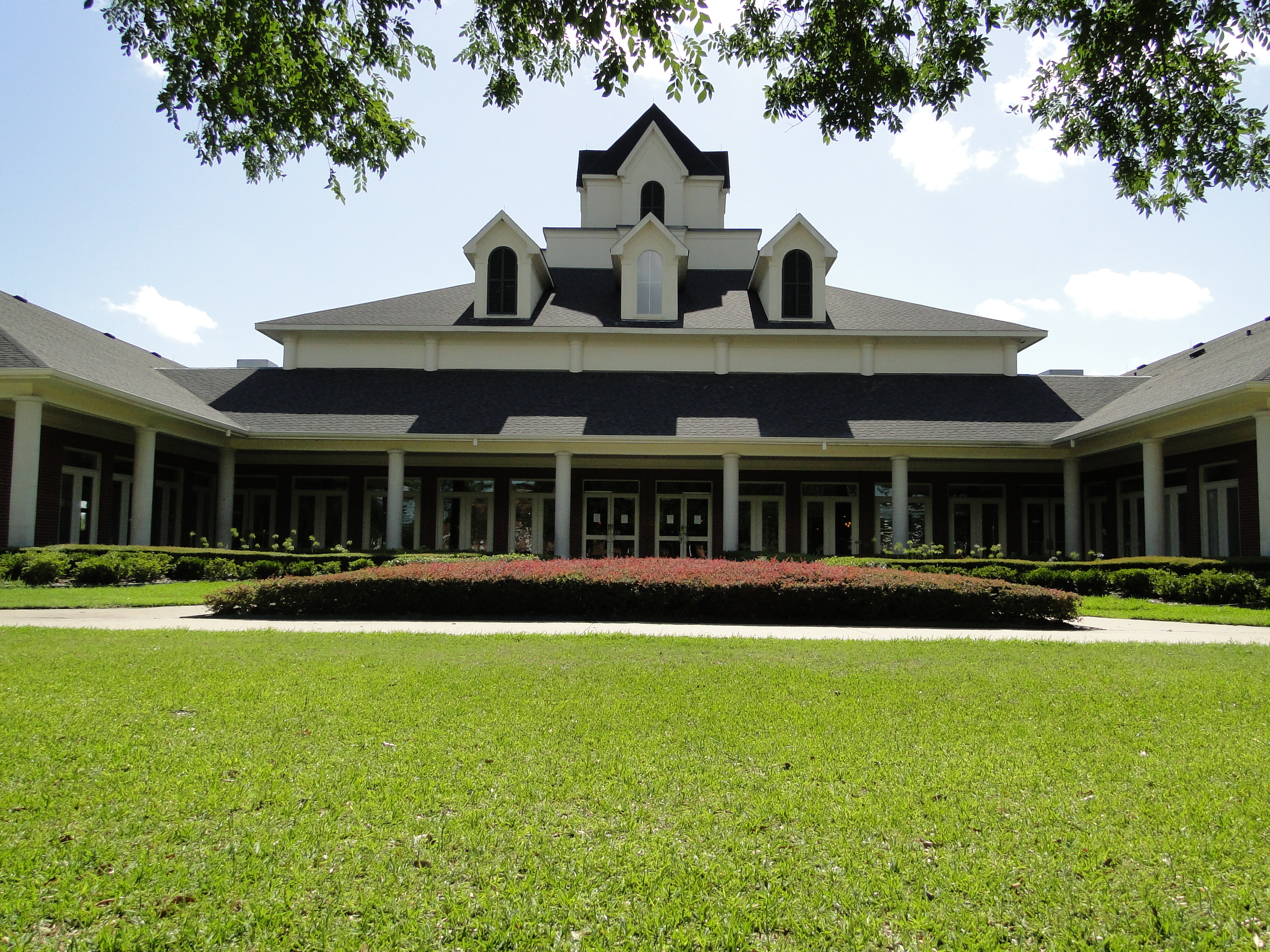 The Lamar University Dining Hall